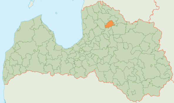 Beverīna map